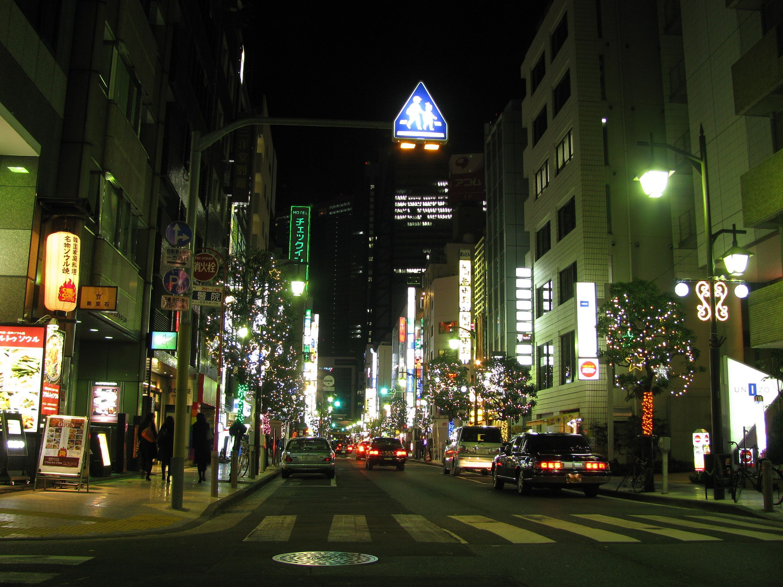 The Shinbashi. This location is in Minato, Tokyo, Japan.